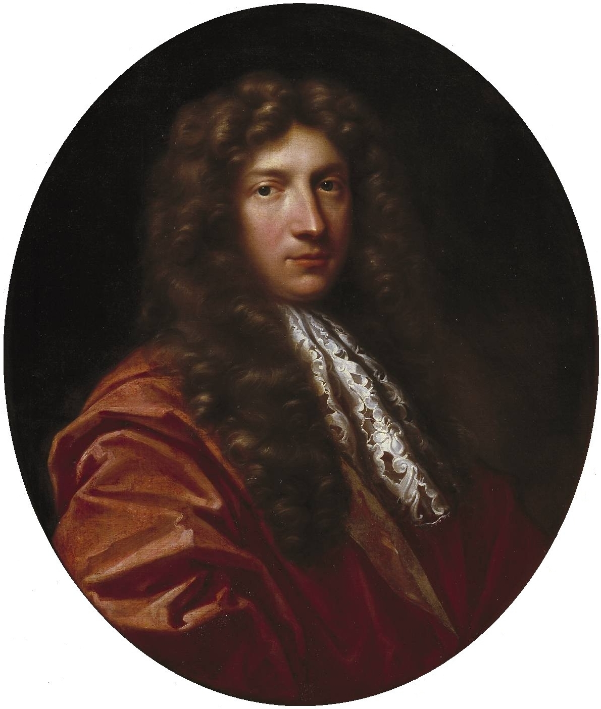 Portrait of a Gentleman, probably Arthur Parsons MD